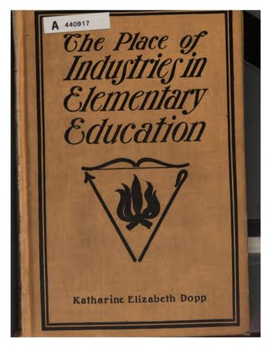 Book cover of "The place of industries in elementary education" by Katharine Elizabeth Dopp, published 1903 in Chicago